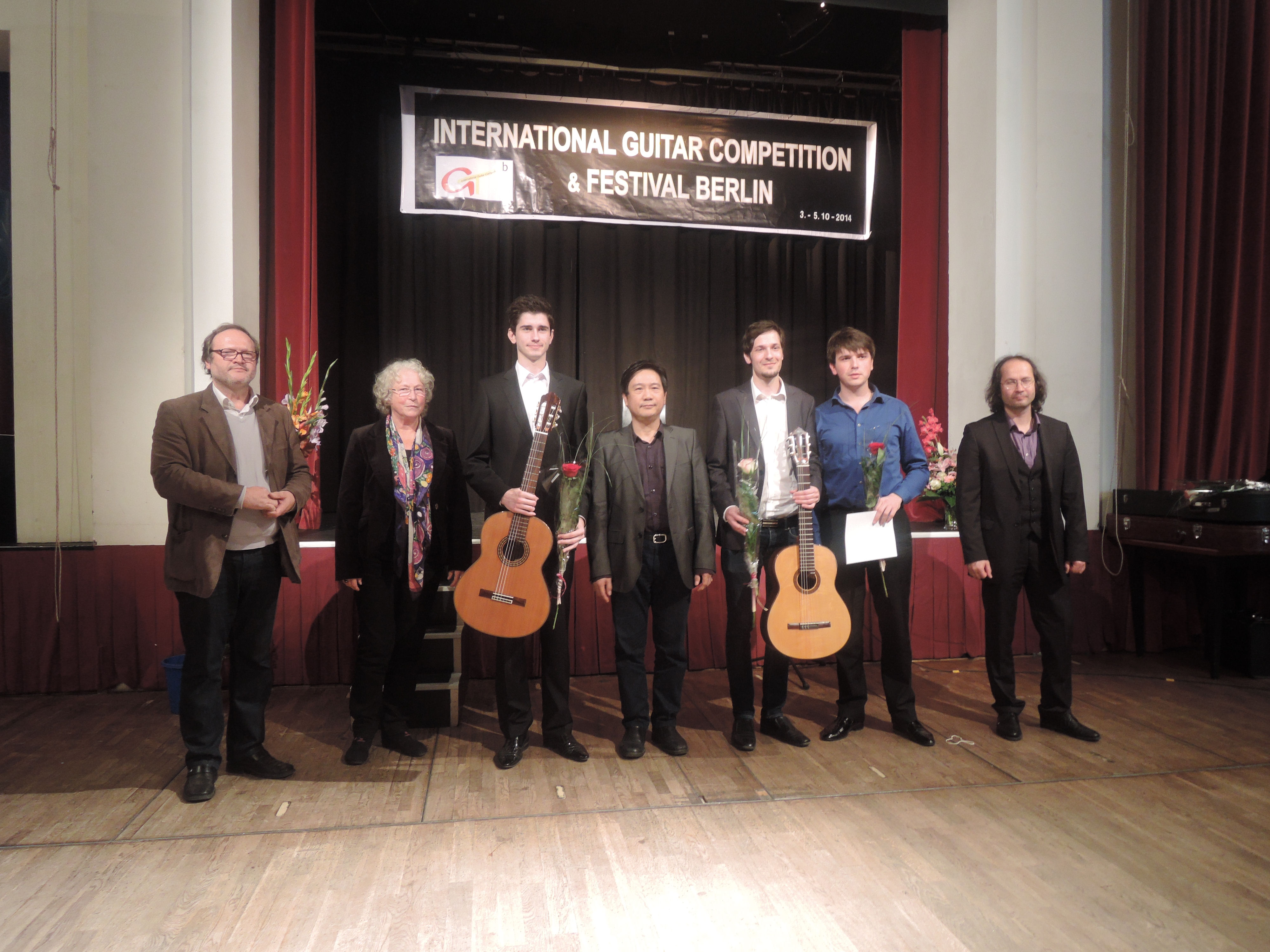 Jury & Winner International Guitar Competition & Festival Berlin 2014